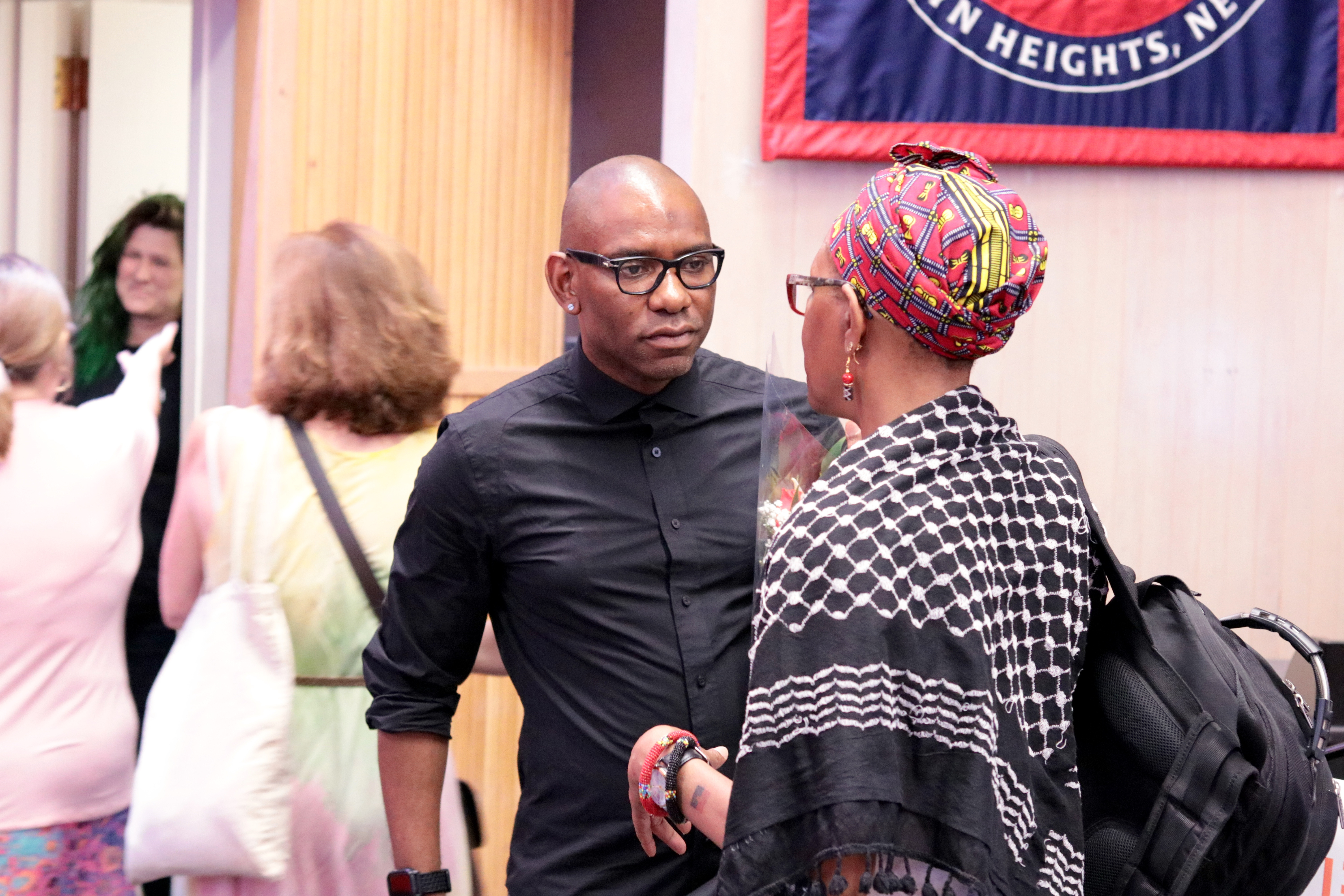 Kenyon Farrow strategizing with an audience member following his key note address.